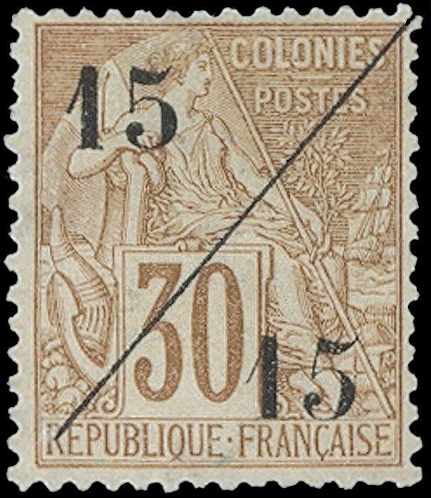 Postage stamp of Cochinchine (French Indochine), 1888, scott#5, 15c+15c overprinted on 30c. Prepared but not issued.